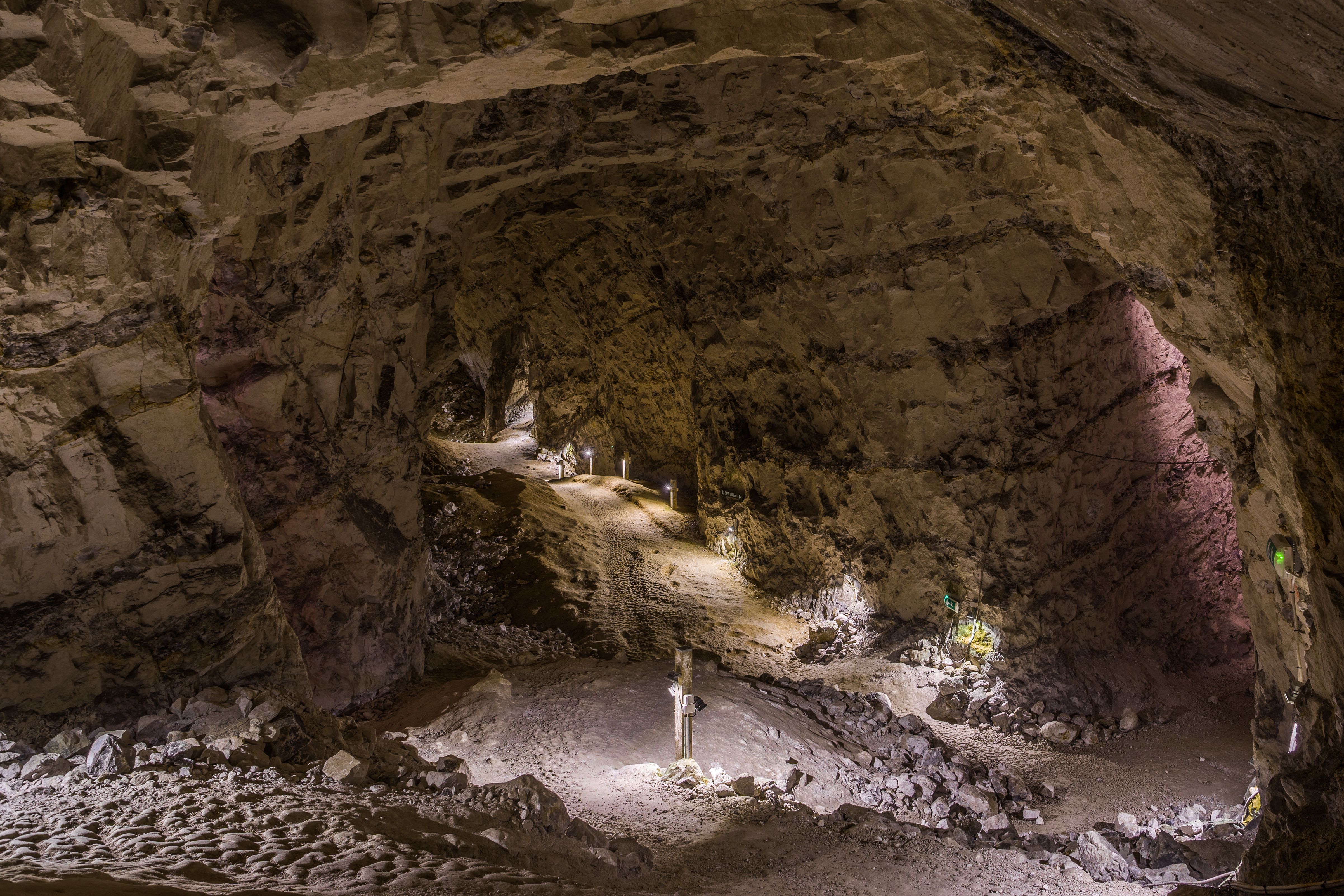 Mønsted Limestone Mine